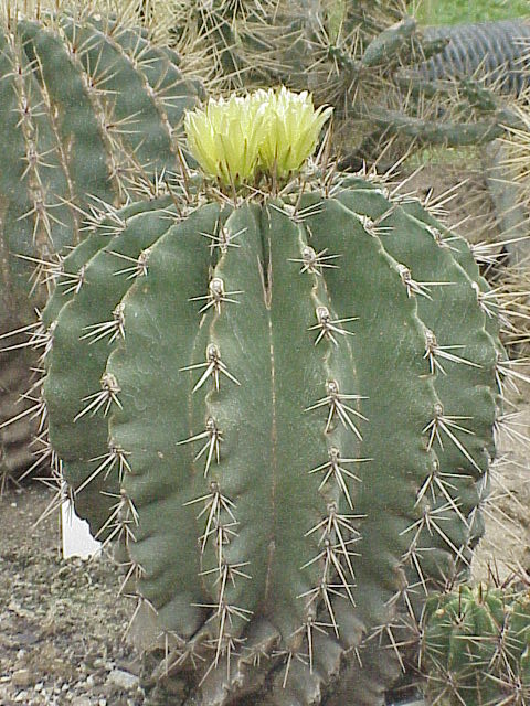 Name Ferocactus echidne Family Cactaceae Image no. 1 Permission granted to use under GFDL by Kurt Stueber